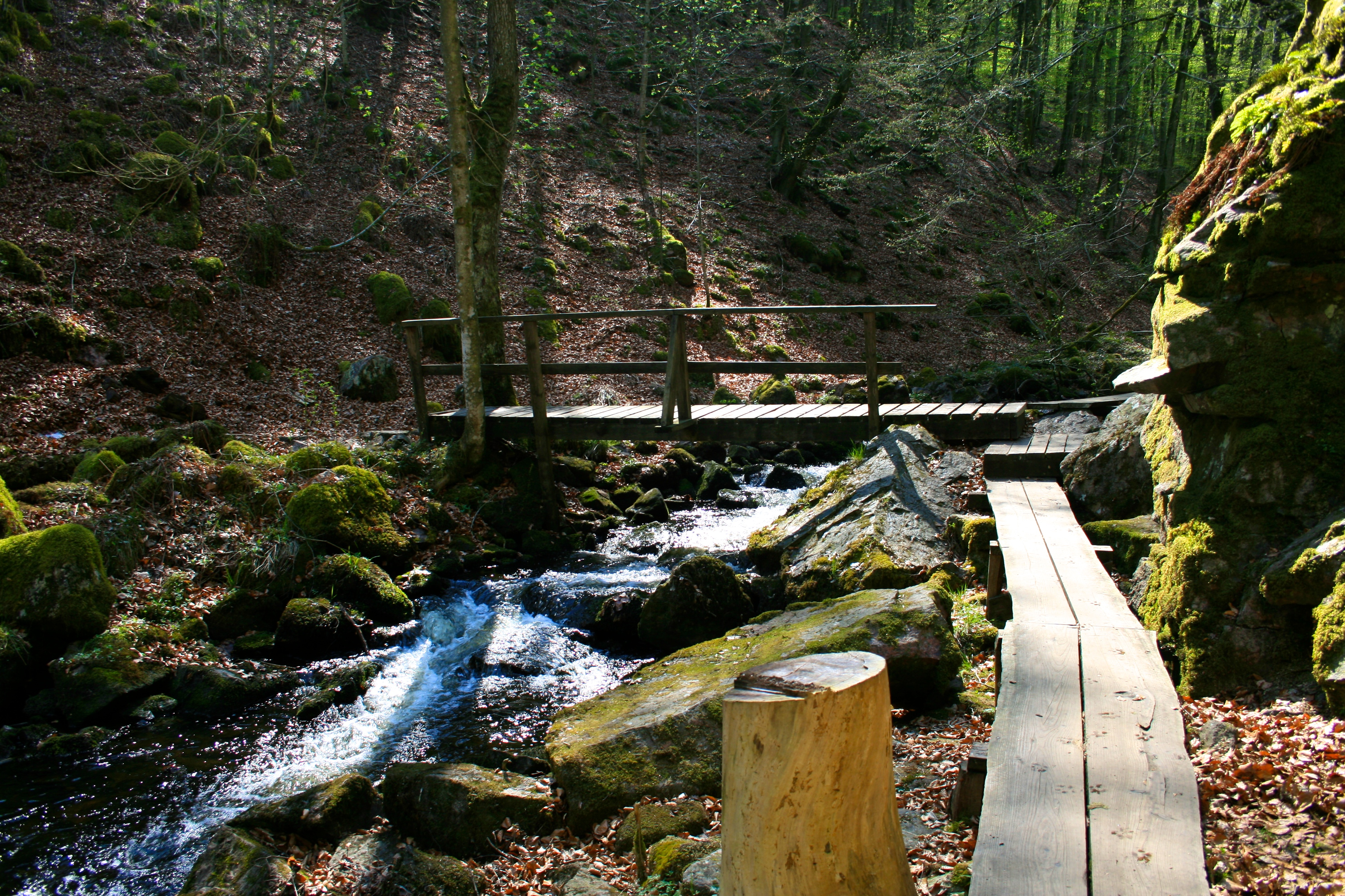 Small waterfall, in a tributary of the Skärån river, Söderåsen national park